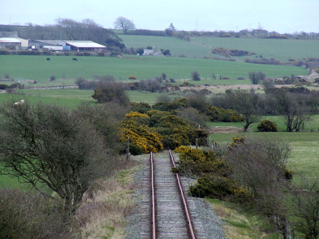 Old Railway line An old railway line leading straight into a gorse bush, on the unused Amlwch railway line